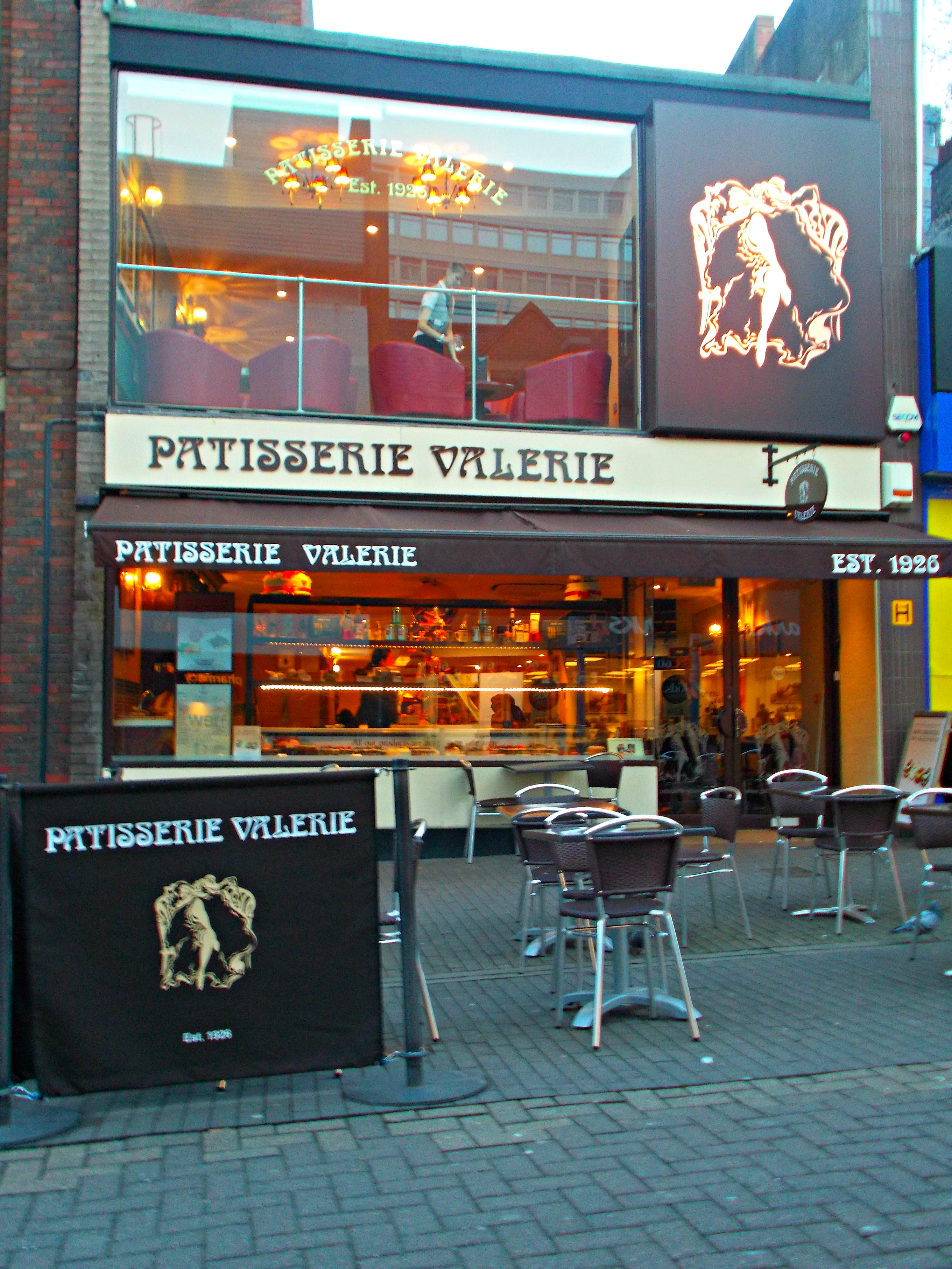 An elegant pattisserie, restaurant and coffee bar in Sutton High Street, Sutton, Surrey, Greater London